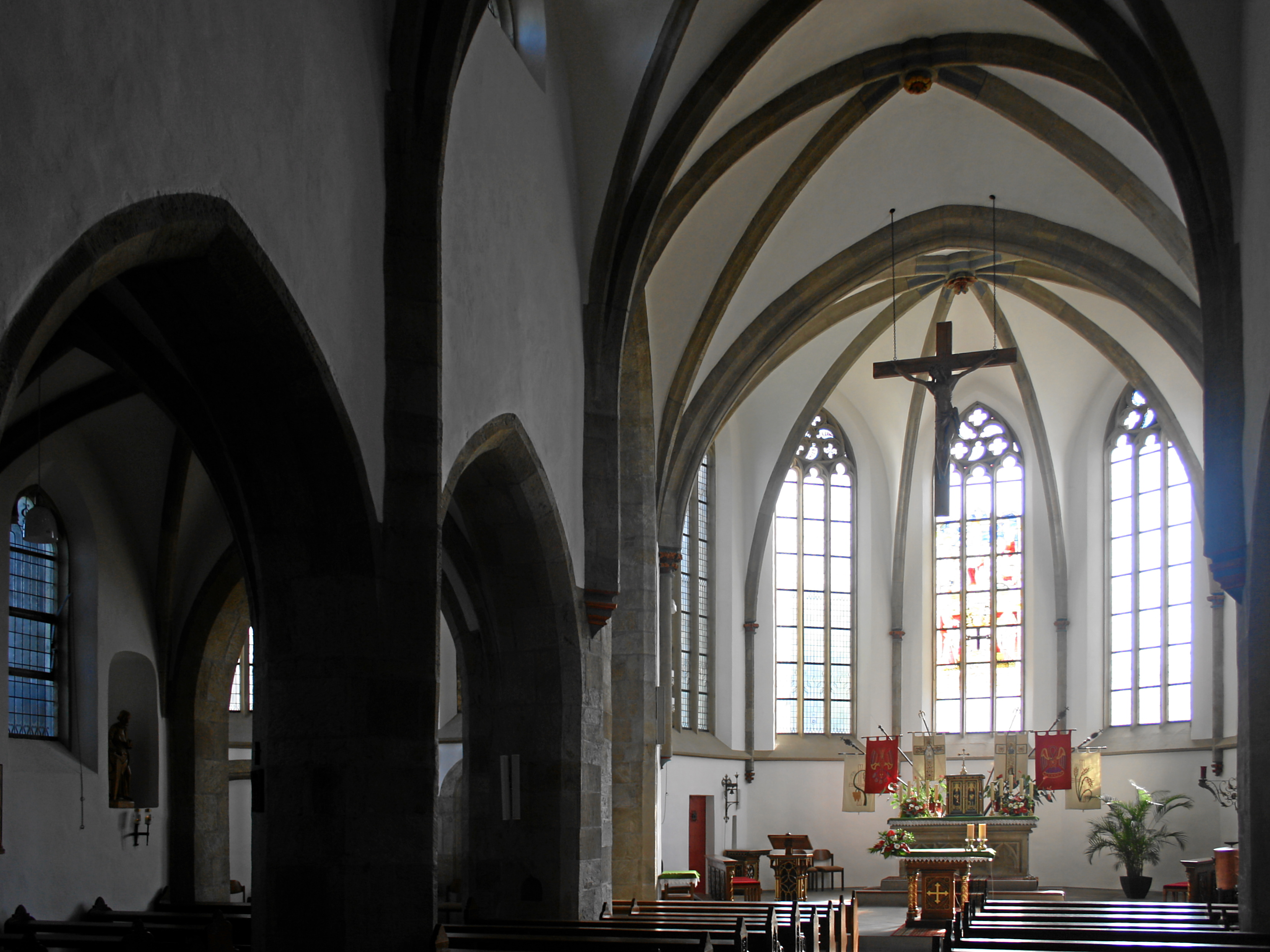 Hennef-Bödingen, Germany. Roman-catholic pilgrimage church Mater dolorosa, interior towards East.